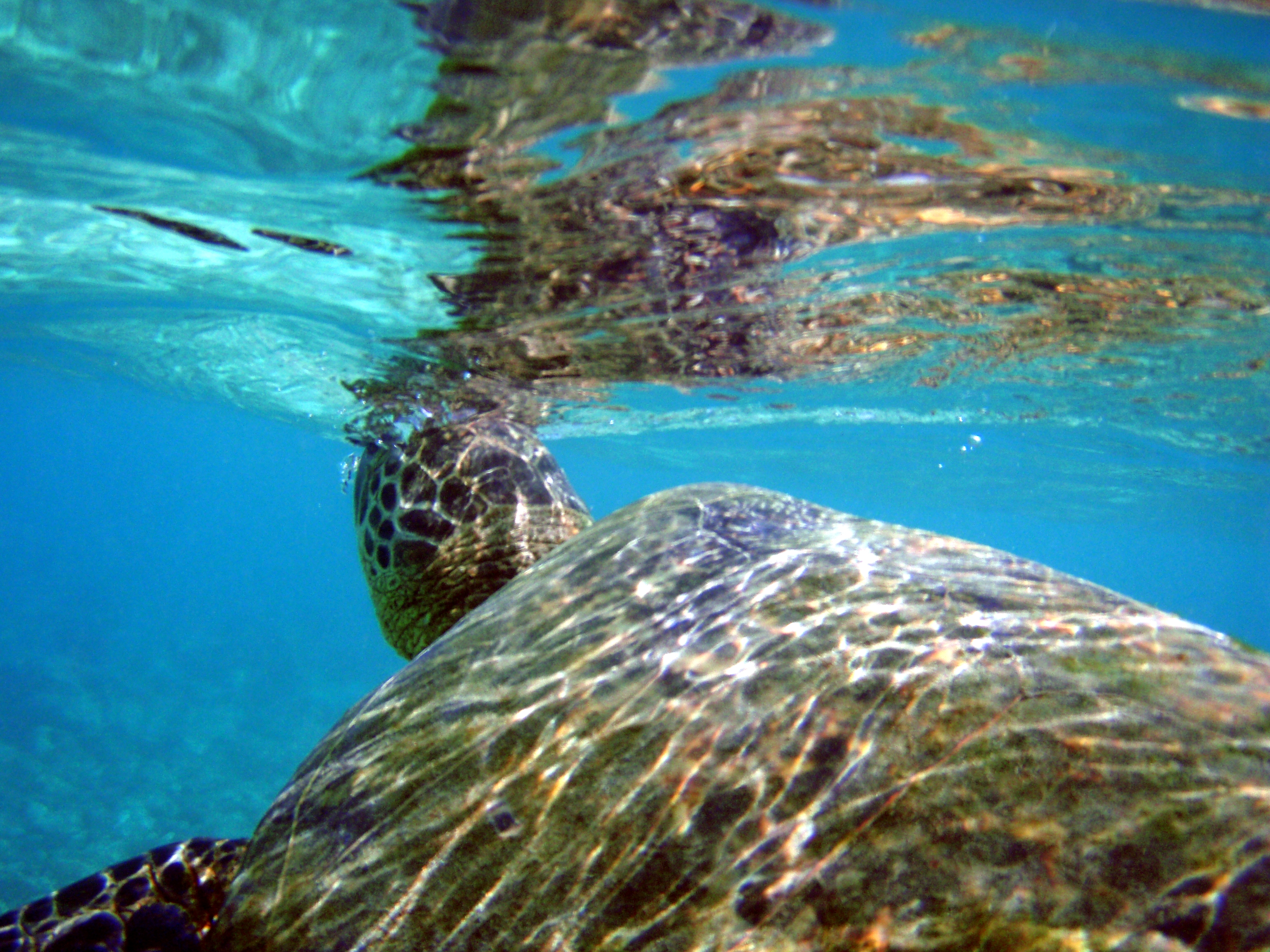 Green turtle has broken the surface of the ocean for air. (Turtles breath air).The picture was taken in Kona, Hawaii, USA.